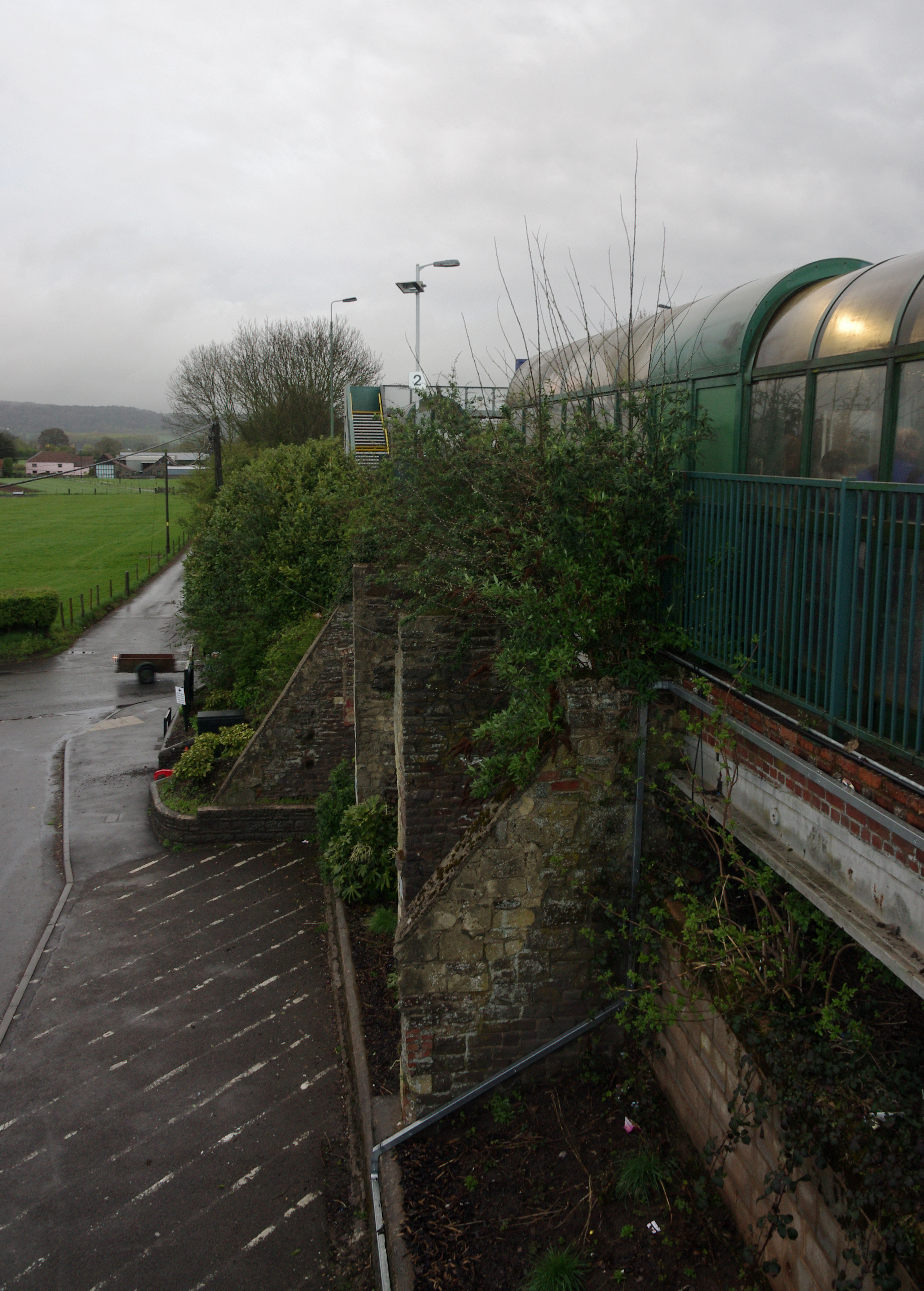 The foundations of the old station buildings at a rather wet Nailsea & Backwell railway station, early one morning.